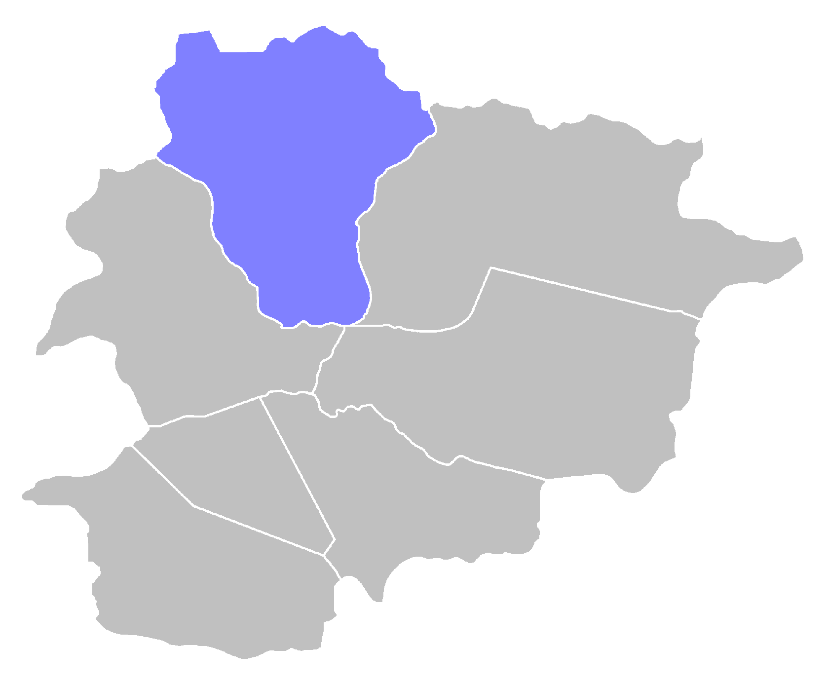 Map of the parish of Ordino in the north of Andorra